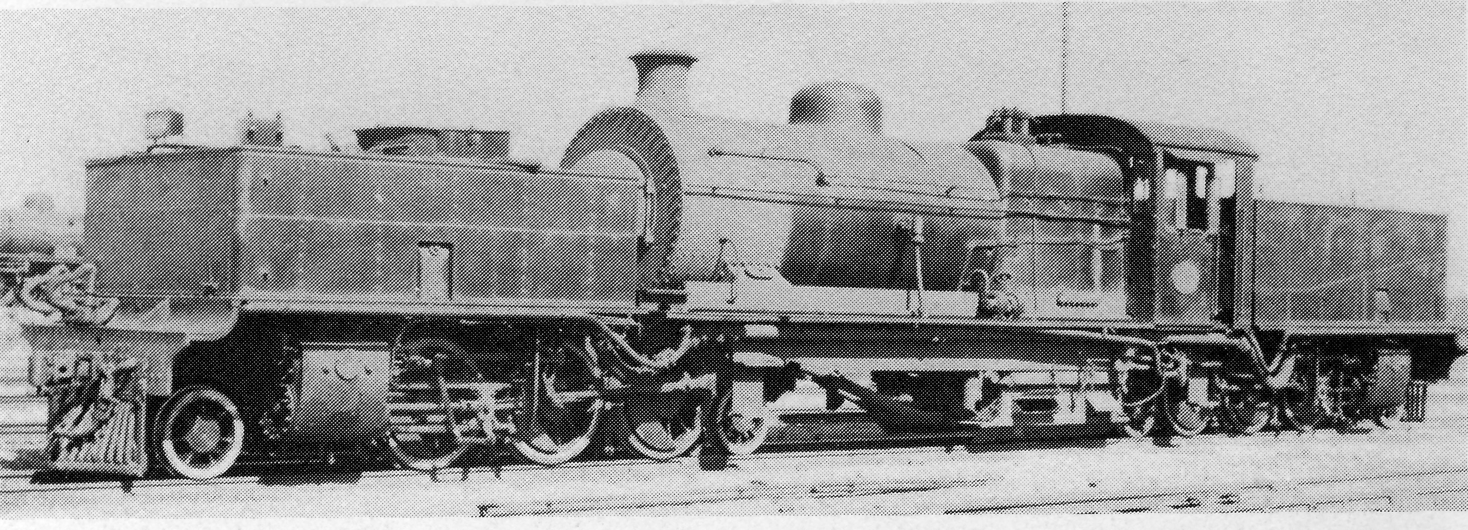 SAR Class GD (2-6-2+2-6-2)